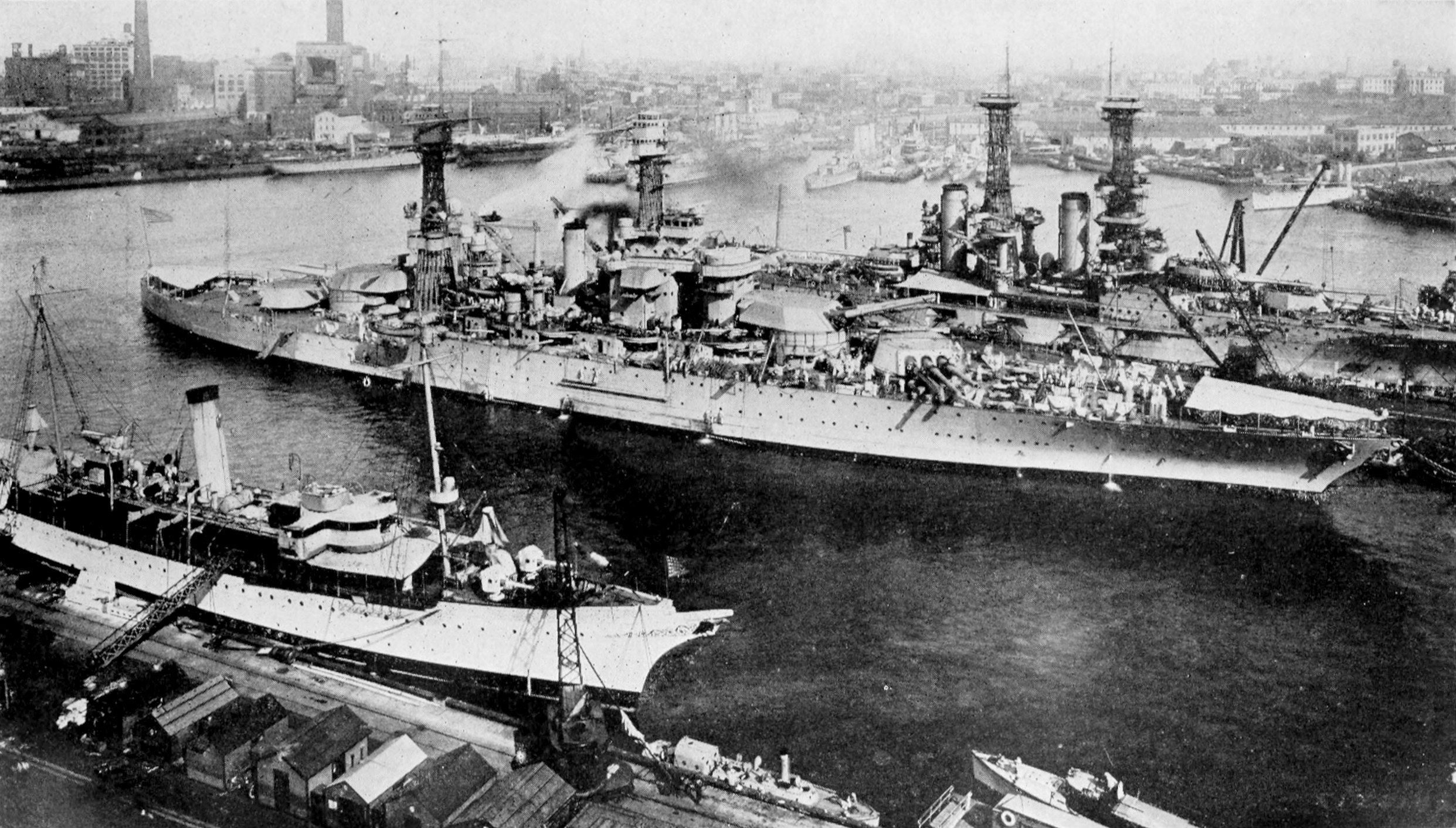 The electrically driven U. S. superdreadnought “Tennessee” at the Brooklyn Navy Yard.